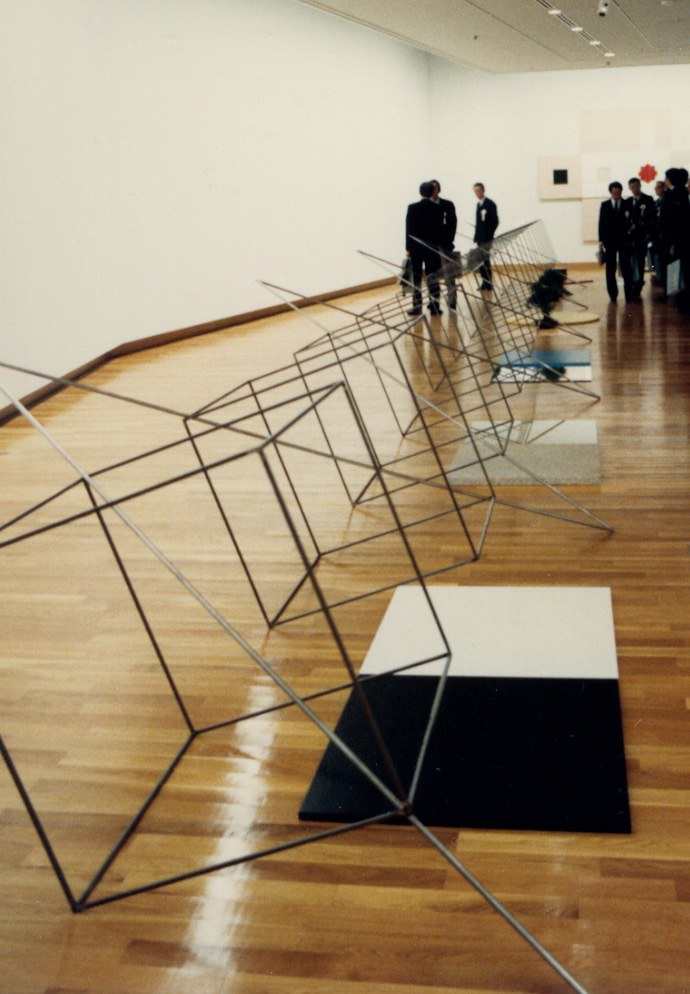 Artist :Gianfredo Camesi Title : «LAMBDA» Vernissage at the Meguro Museum of Art in Tokyo, Japan. 1987